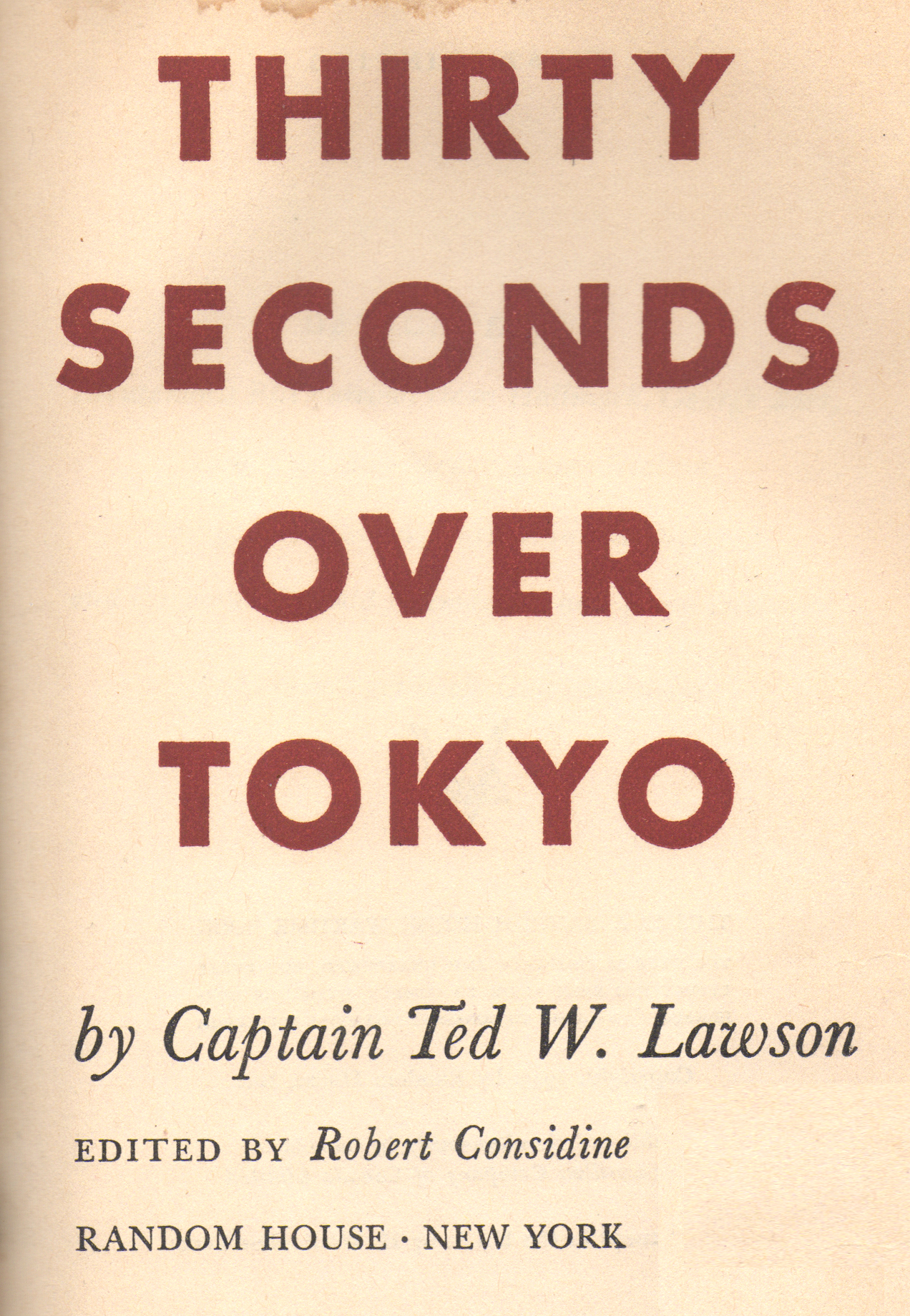 Title page, "Thirty Seconds Over Tokyo" by Capt. Ted Lawson, 1st Edition, 1943